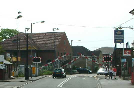 Level crossing - Chertsey - England - Photo by Tagishsimon - 270404